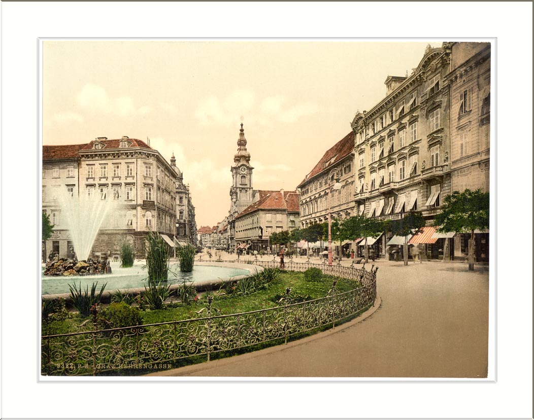 Graz Herrengasse Styria Austro-Hungary